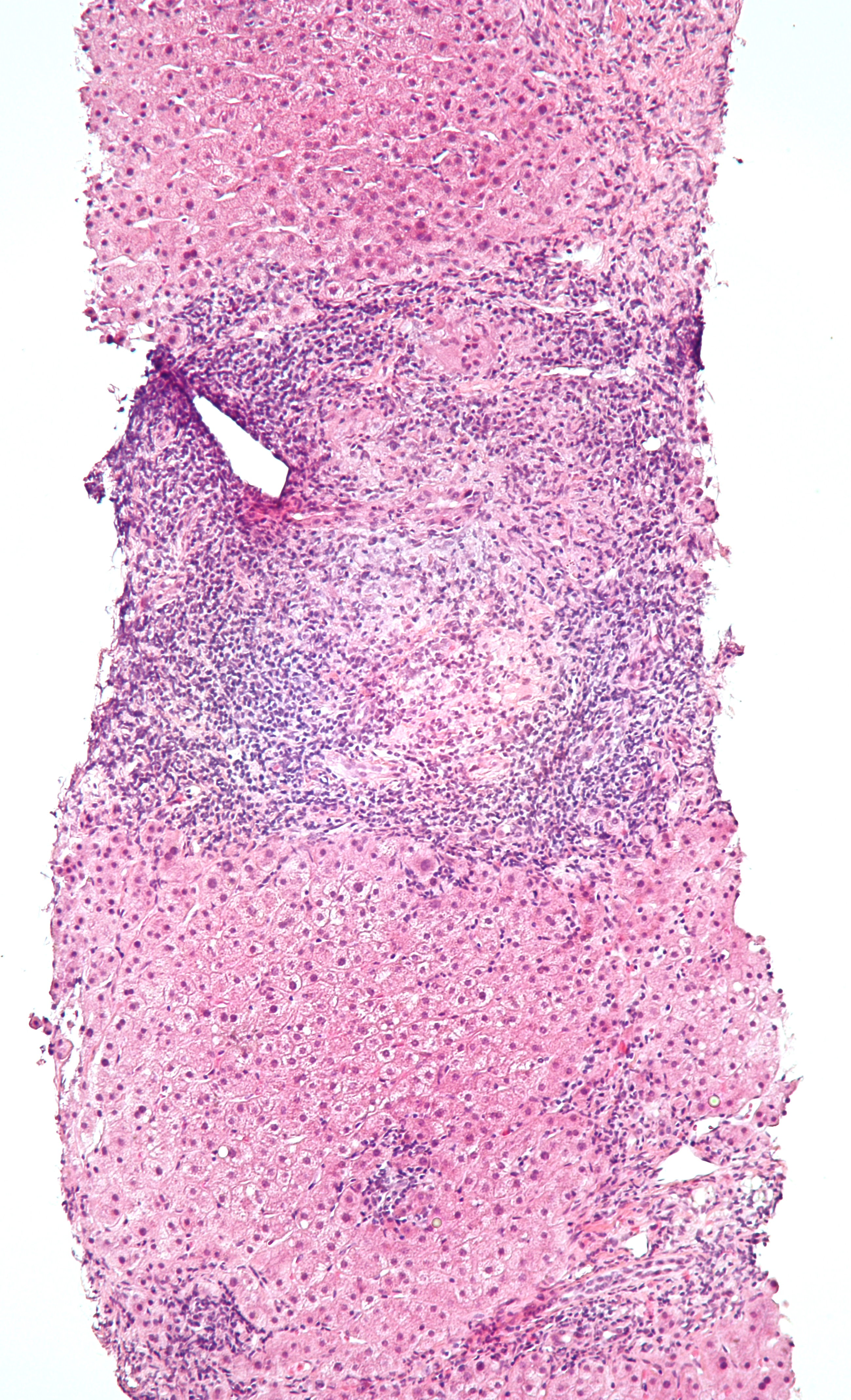 Low magnification micrograph of primary biliary cirrhosis. Liver biopsy. H&E stain. Features: Bile duct intraepithelial lymphocytes - key feature. Bile duct epithelial cells with eosinophilic cytoplasm. Granulomata - close to the bile duct. Portal inflammation with mixed cell population, i.e. lymphocytes, plasma cells, eosinophils. Related images Low mag. Intermed. mag. Intermed. mag.